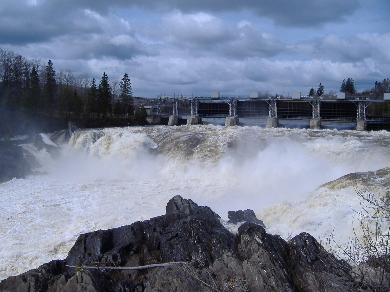 NB Power's Grand Falls generating station floodgates are open during the Saint John River annual spring flood.